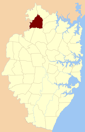 original location of the parish within Cumberland County, New South Wales (Sydney area)